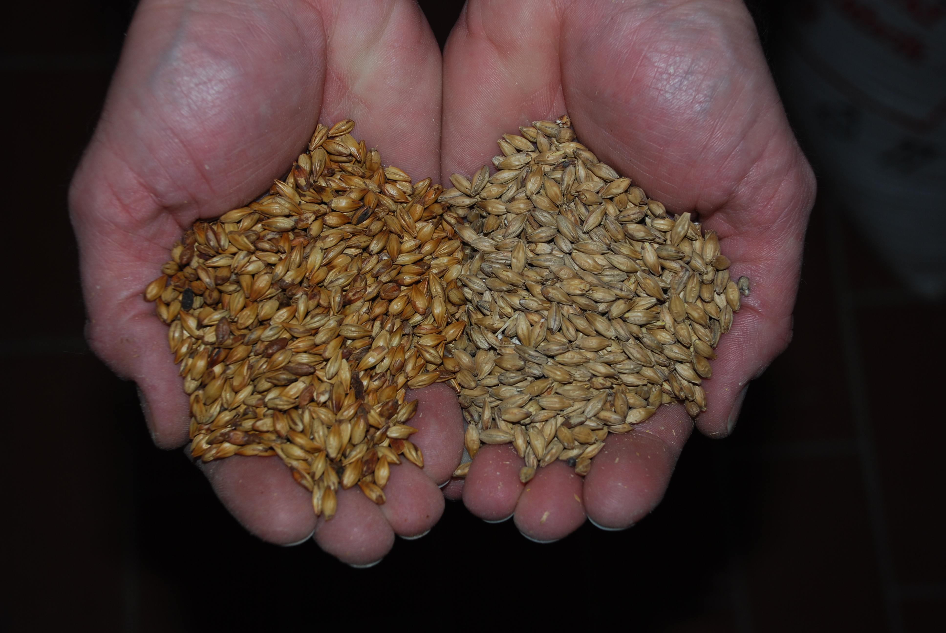 malt: red and normal, used for preparation of HannoverWikiRed beer (Dunkel (dark) beer with creative commons license)